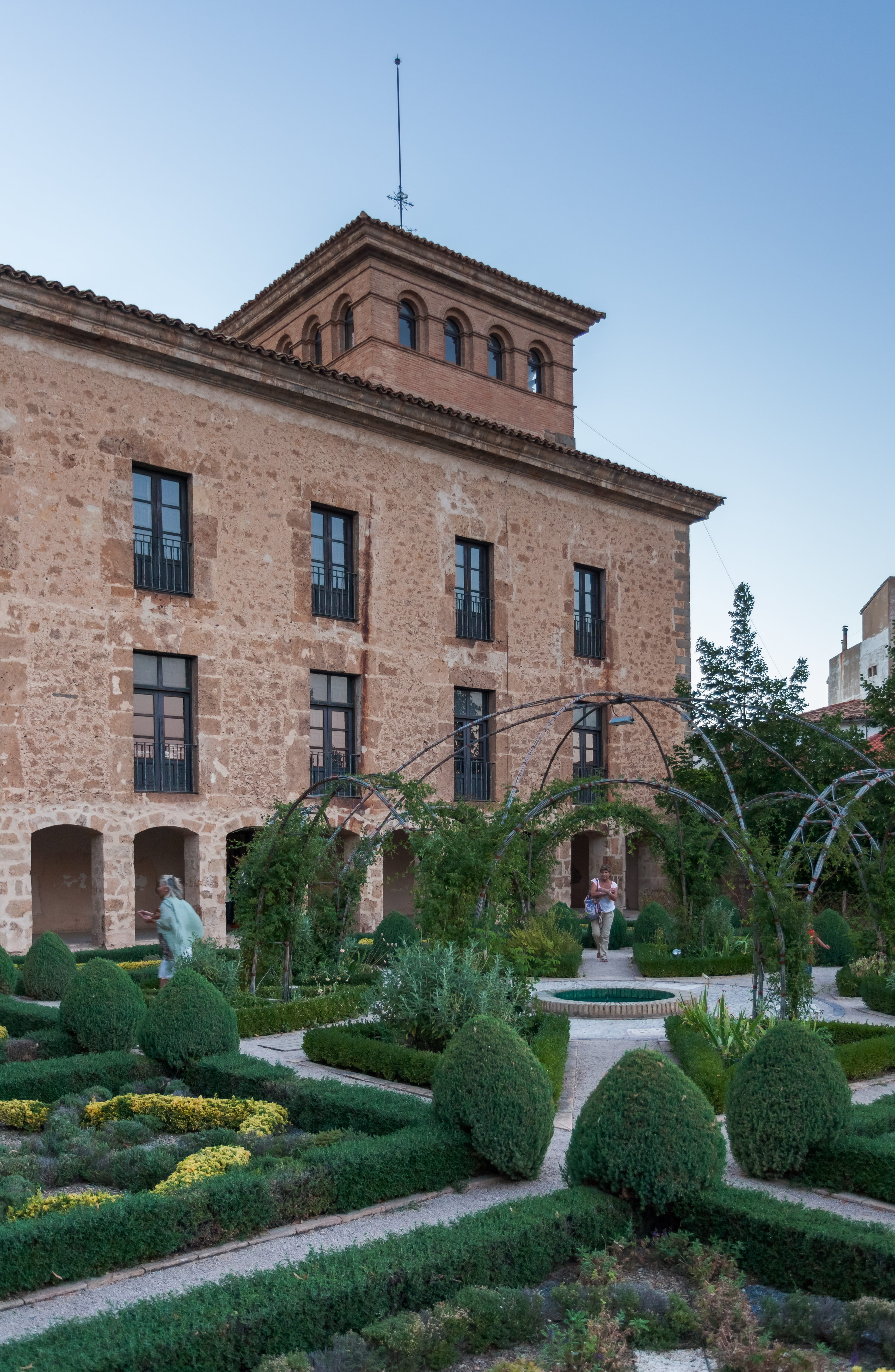 Palacio de los Castejones, Ágreda, Spain